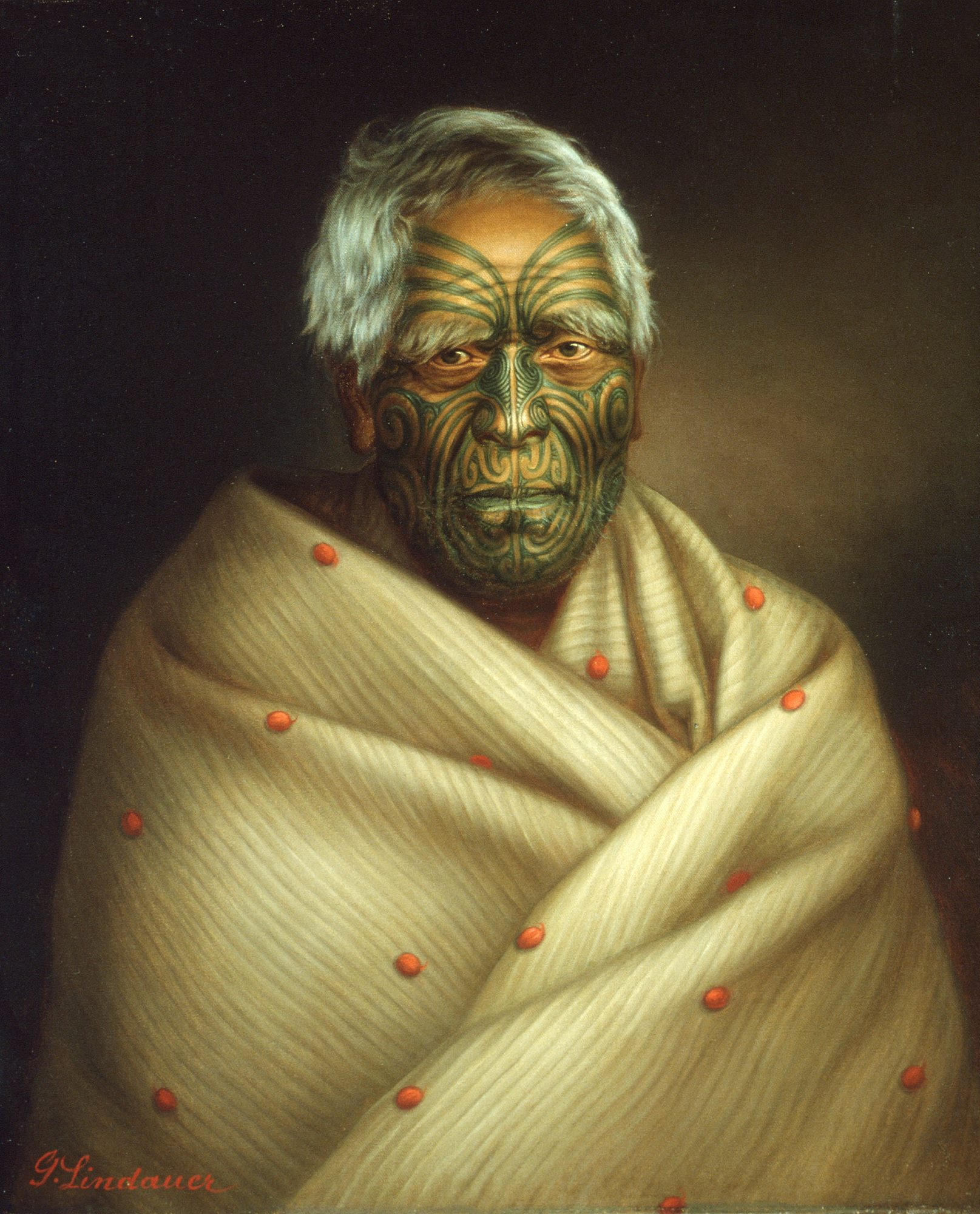 Portrait of Paratene Te Manu, by Gottfried Lindauer.